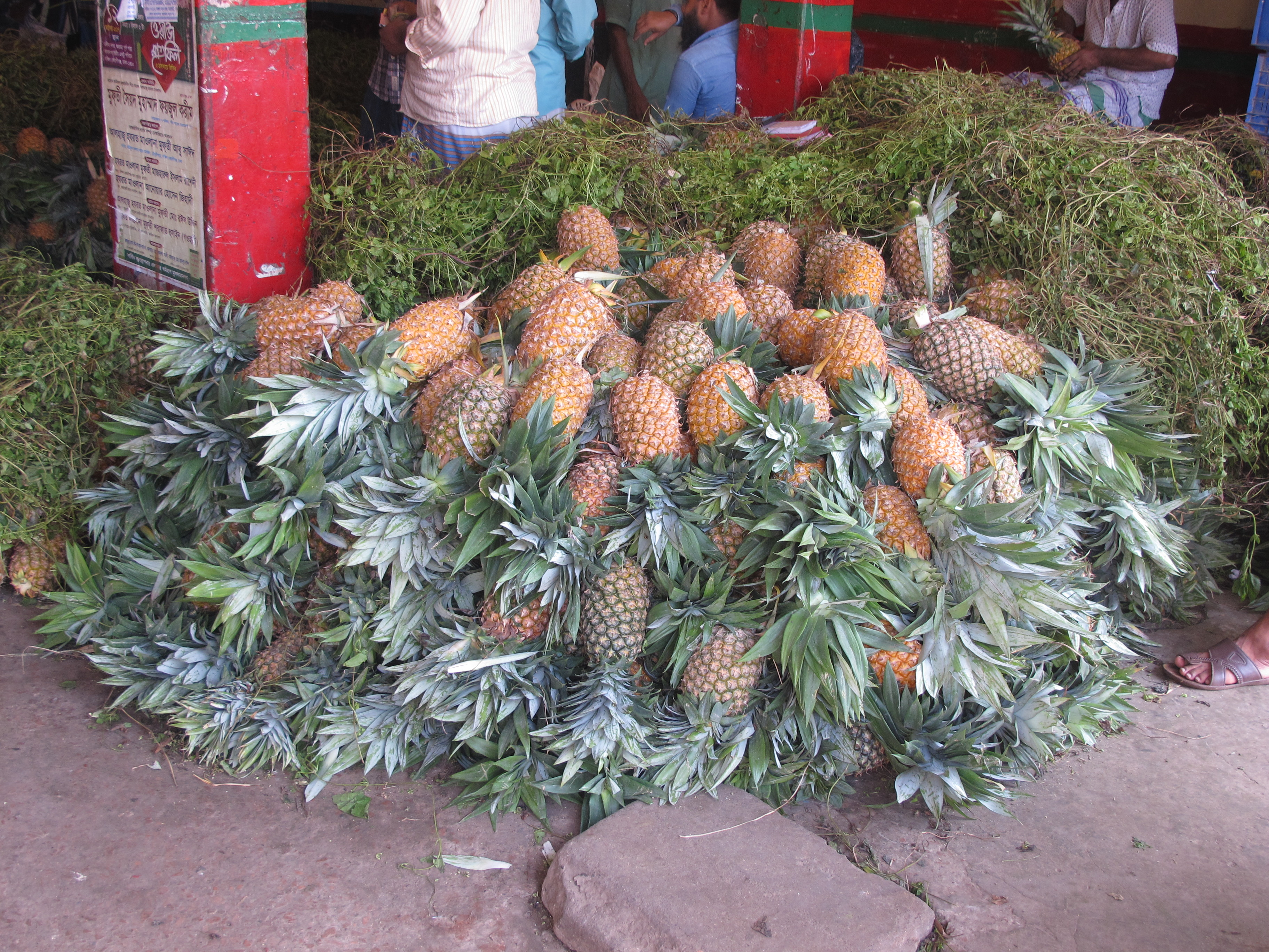 Pineapples at the market of Sadarghat